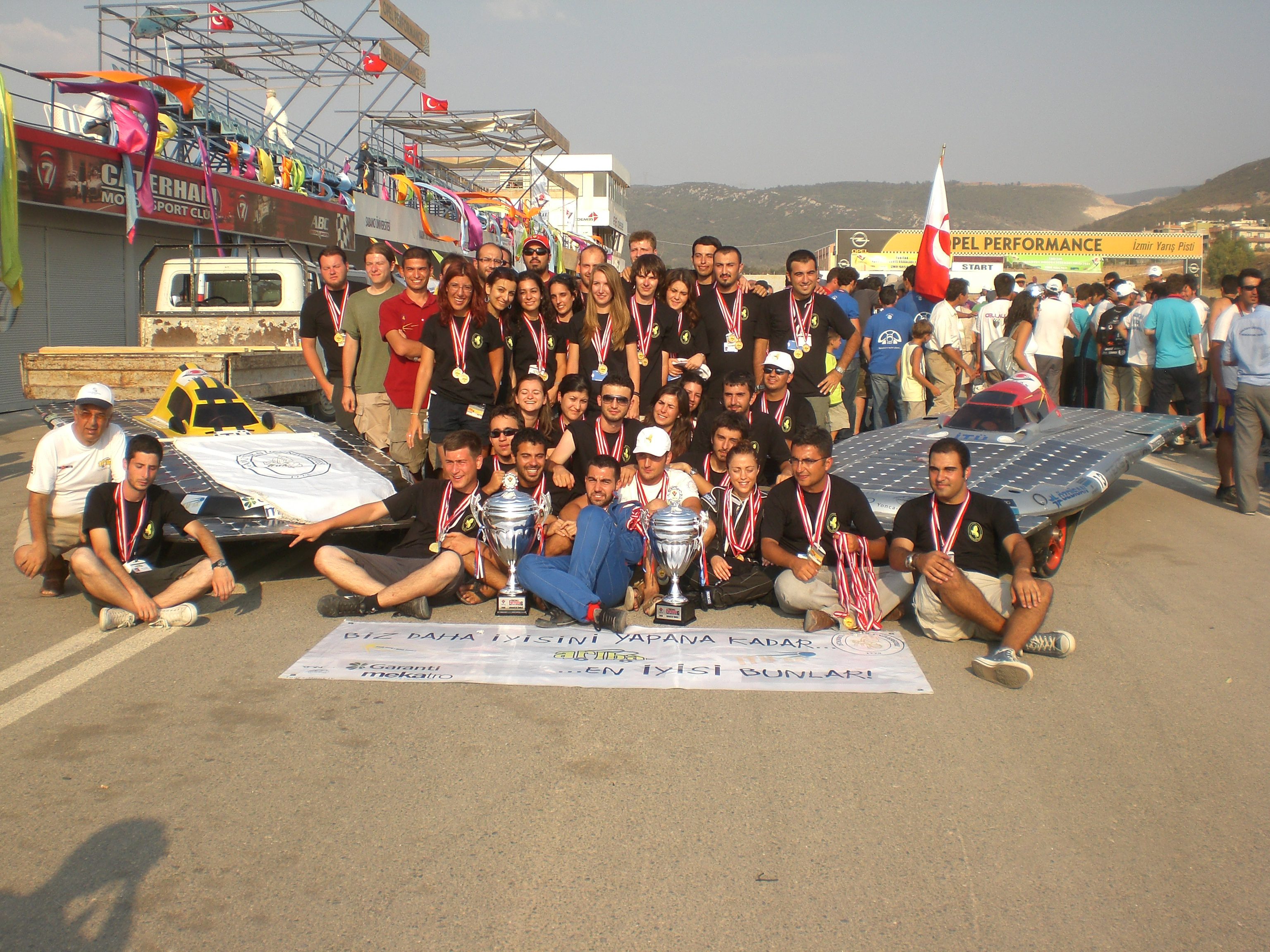 2008 formula-g